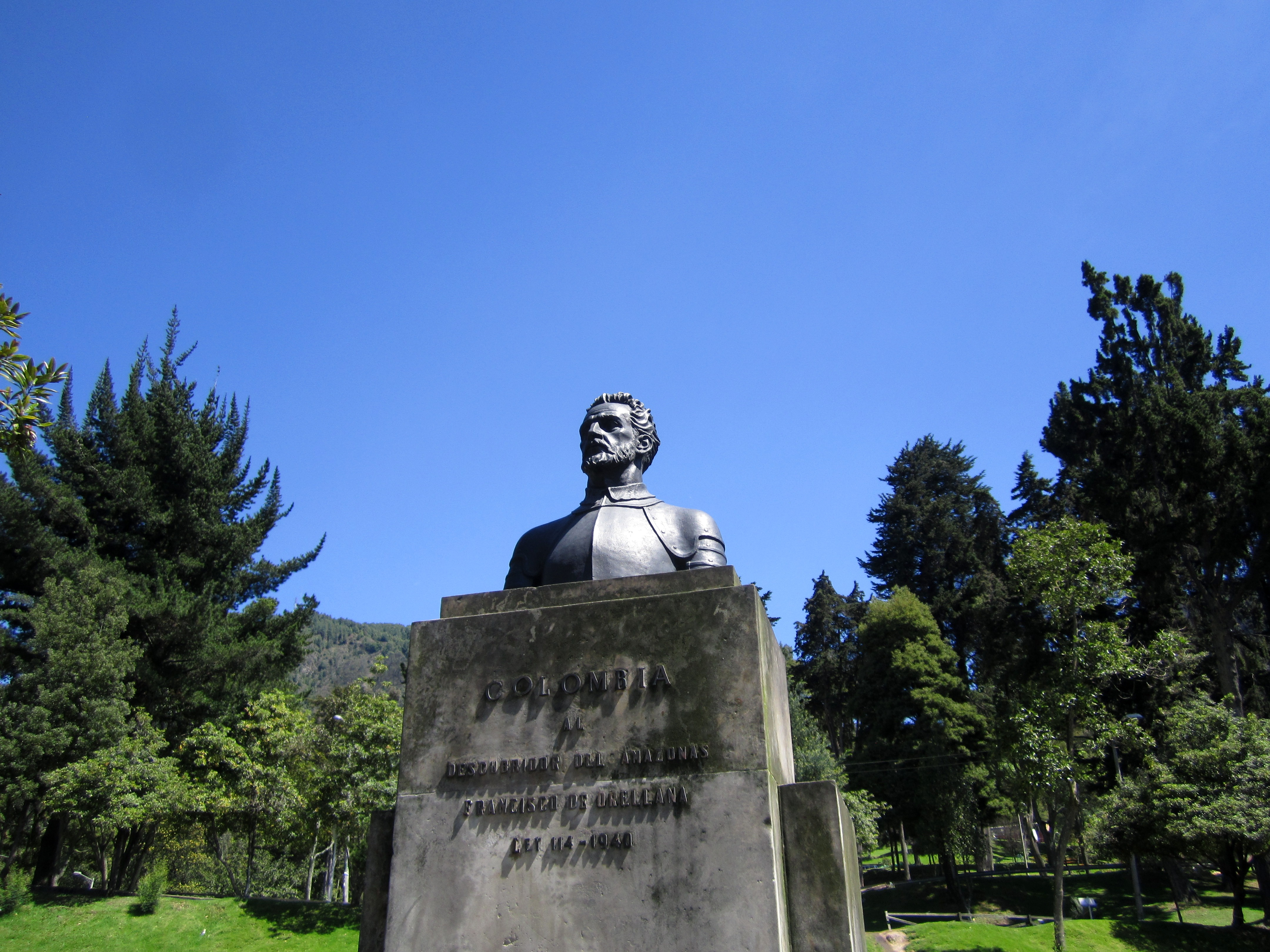 Bogotá